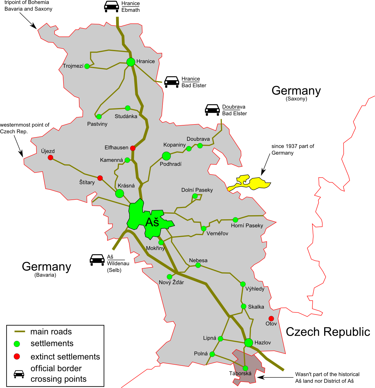 Map of Ašsko (Aš region), Czech Republic. English version of File:Ašsko mapa.png